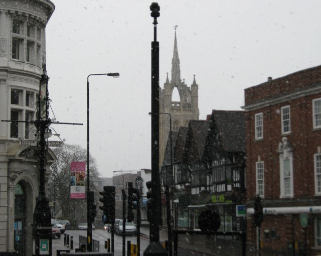 Sutton on a snowy Easter morning Taken at the historic centre of Sutton, where London-Brighton and Croydon-Kingston roads crossed. The former is now the pedestrianised High Street. The sign above the signpost is that of the Cock Tavern, successor to the Cock Hotel, the main coaching inn of the town. In the background is Trinity Methodist Church, one of the three main town-centre churches, celebrating its centenary this year (2008).